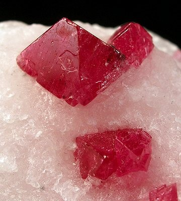 Spinel Locality: Luc Yen, Yenbai (Yen Bai) Province, Vietnam (Locality at ) Size: 6.2 x 5.9 x 2.9 cm. A beautiful plate of the gemmy and bright glassy spinels from Vietnam. The color here is a lighter hue than normal, and the lustre a bit glassier. The crystals literally "pop" out of the stark white matrix and sparkle.